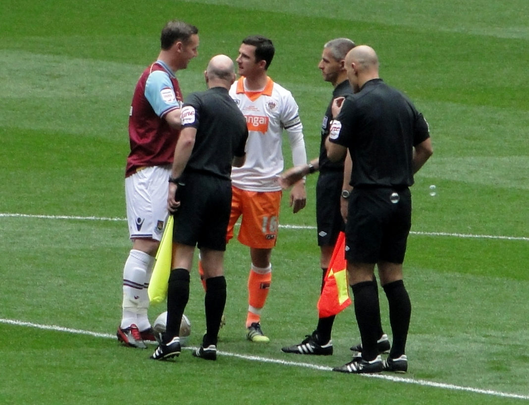 West Ham United captain, Kevin Nolan and Blackpool captain, Barry Ferguson shake hands before the 2012 Championship play-off final at Wembley watched by officials including referee Howard Webb (right).